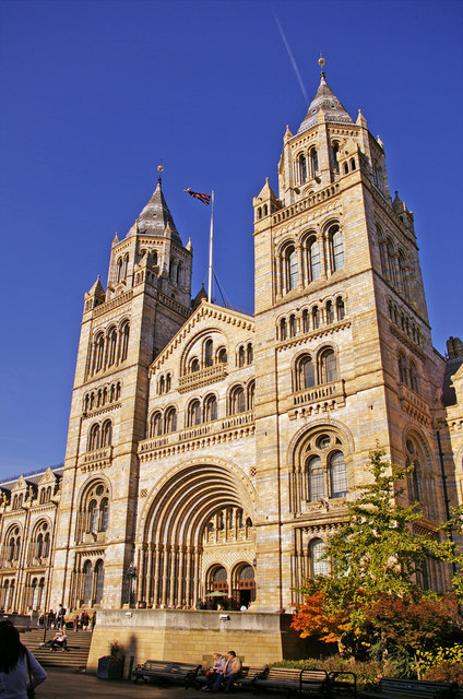 Entrance to Natural History Museum, Cromwell Road, London SW7